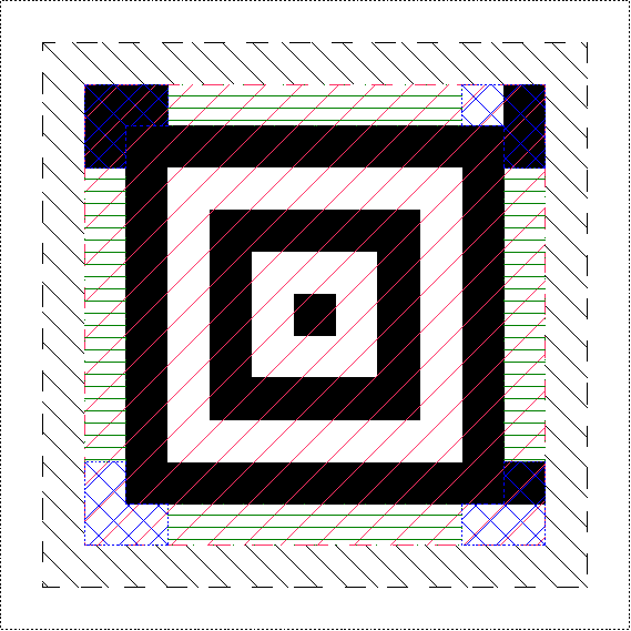 Aztec Code with description (below translated by Construction of a compact Aztec Code bar code Diagonal red lines - the core Blue grid - patterns indicative Green bars - the designation procedure and error correction code words Black lines - the first data layer Hatch is missing - the second layer of data